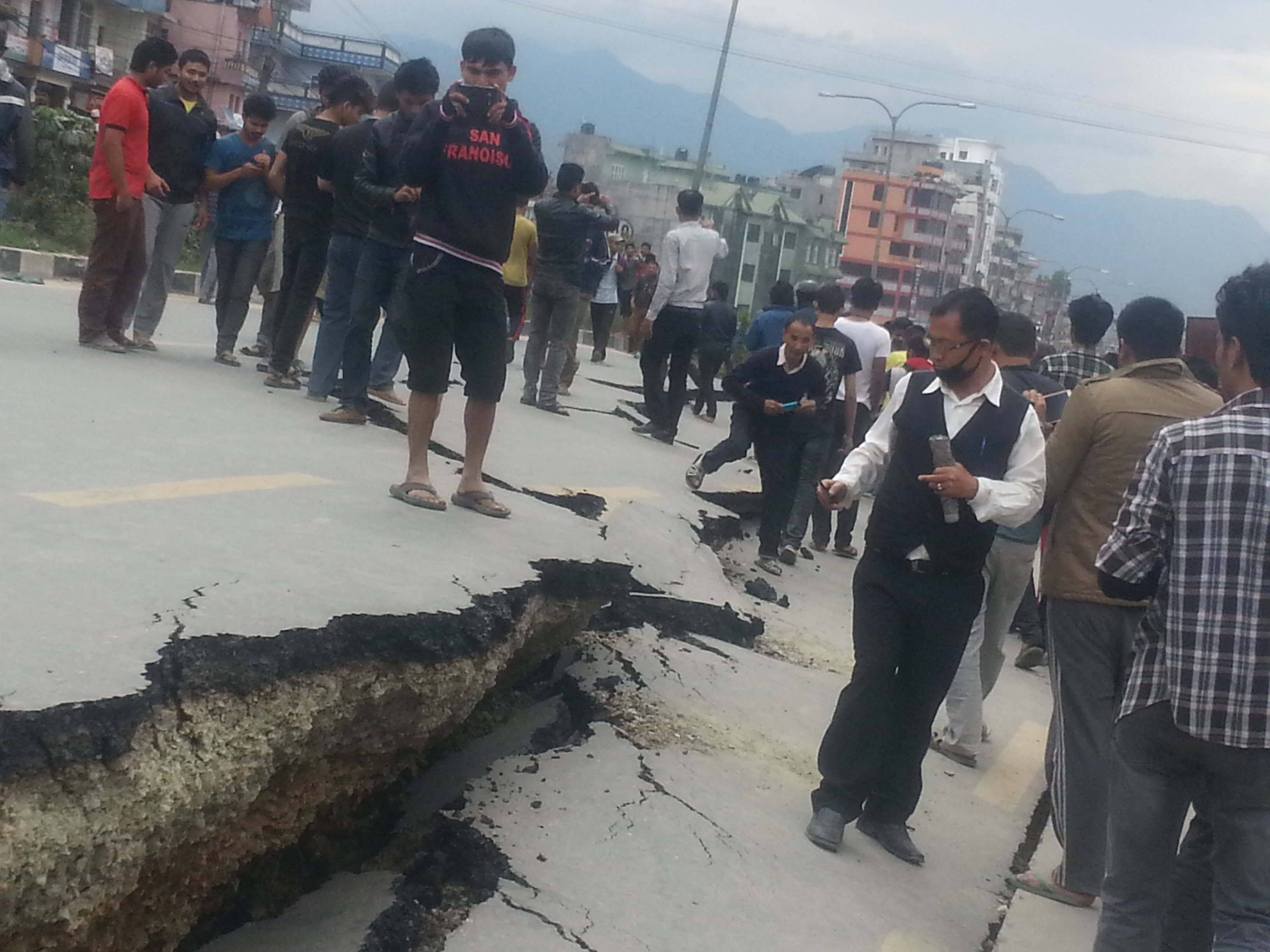 Damages of Araniko Highway at Kausaltar Bhaktapur